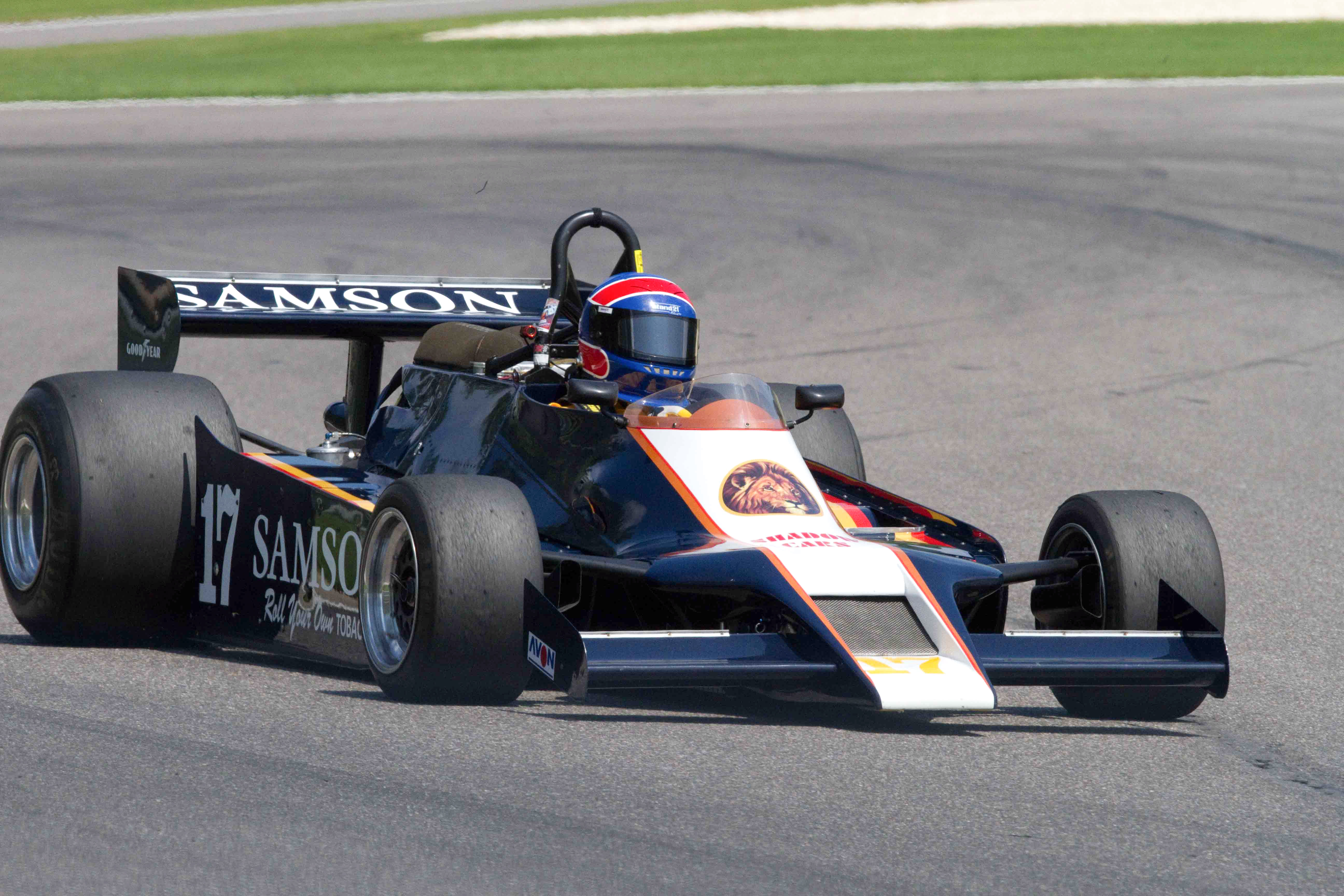 Shadow DN9 at Barber Motorsports Park, 2010